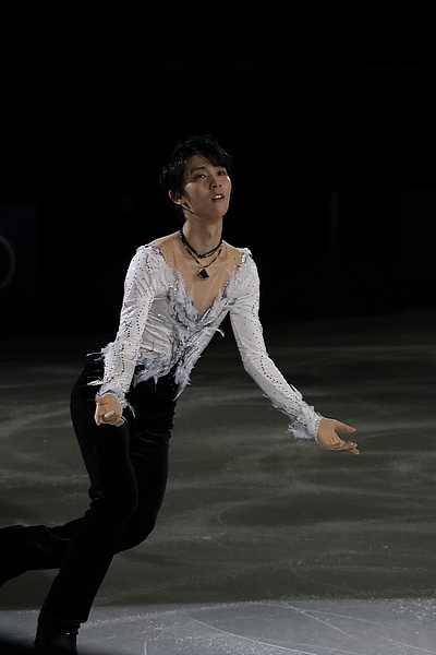 Gala exhibition at the 2018 Winter Olympics